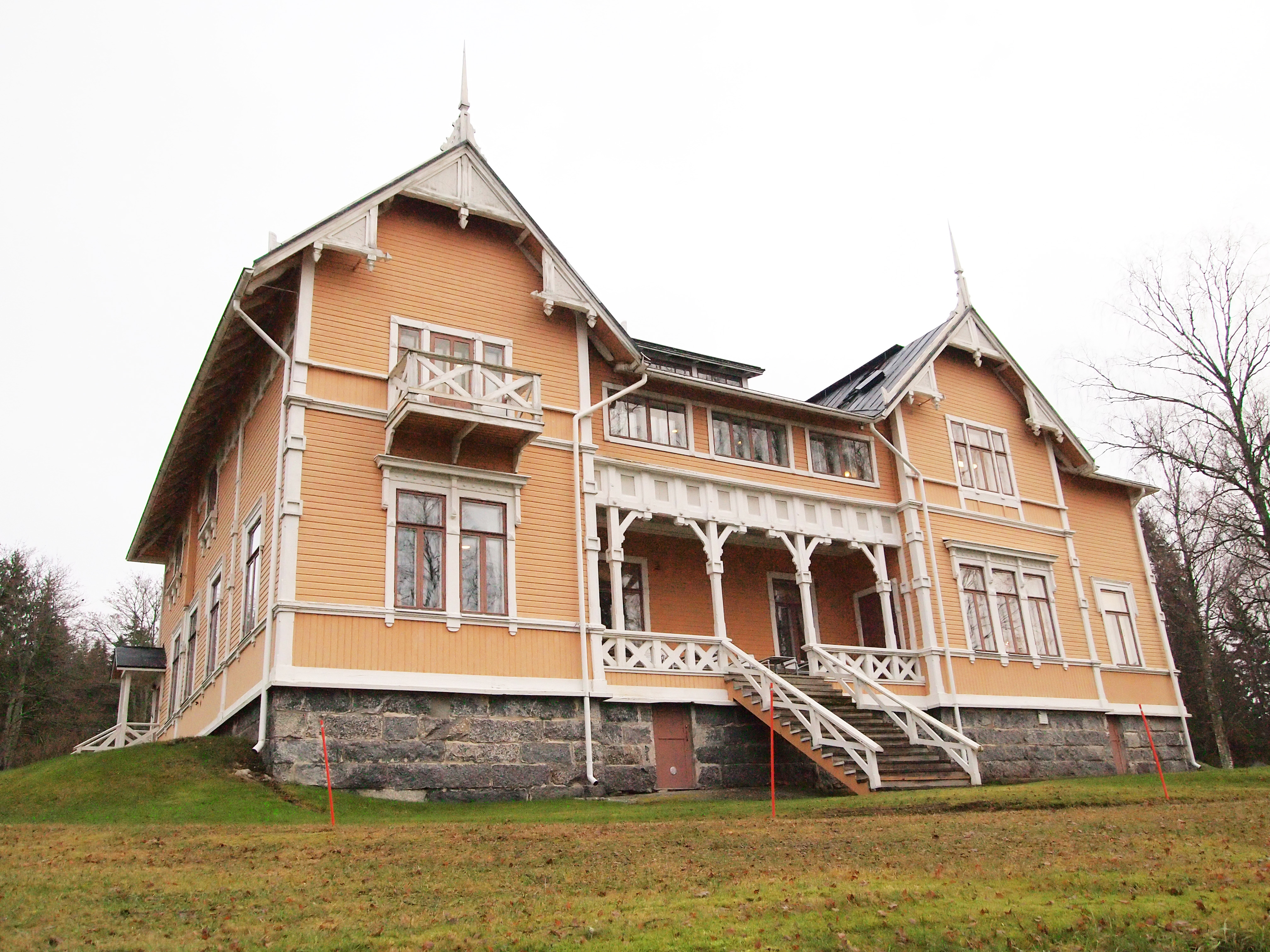 Building Järvilinna in Laukaa.